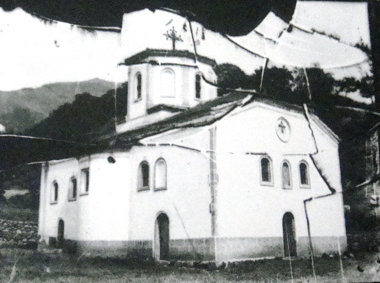 Church in the village of Bač, Macedonia. 1918-1941 This media file is produced by Wikipedian in Residence in Category:Wikipedian in Residence at DARM in 2016.